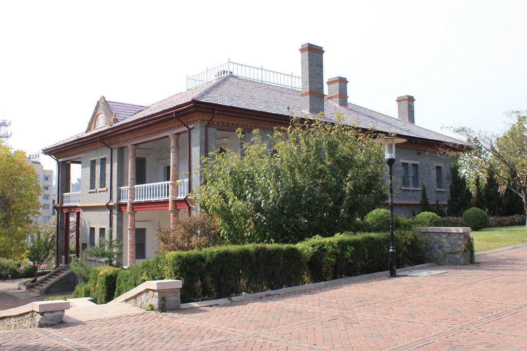 Unknown